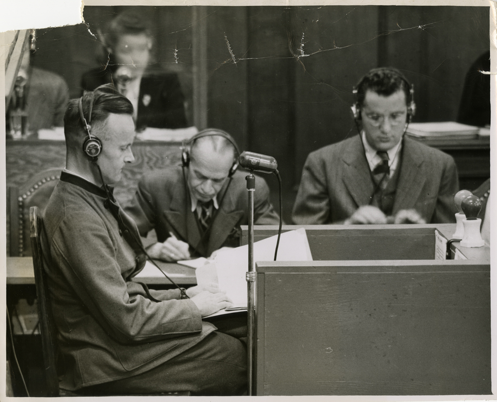 Prosecution witness Edinger Ancker (SS-Obersturmbannführer) sits on the witness stand at the Nuremberg Trials (Justice or Judges’ Trial (Case 3).